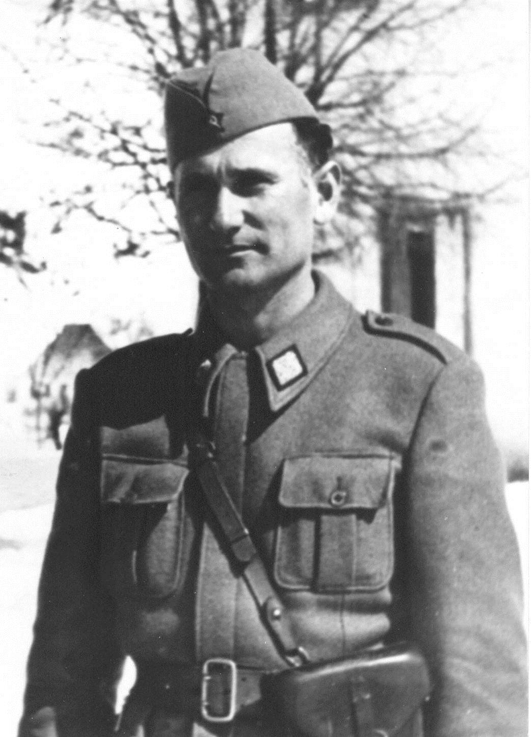 Radovan Vukanović (1906-1987), Montenegrin general